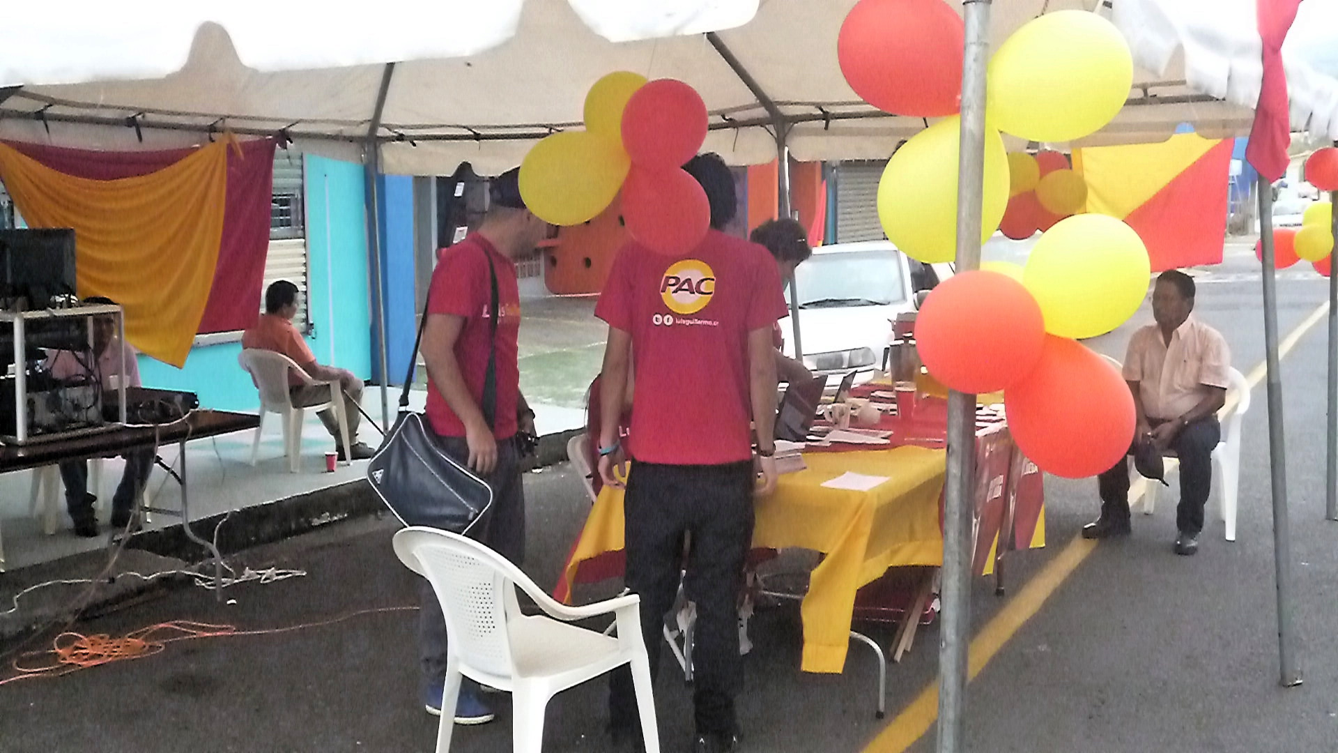 Citizens' Action spot at Quesada during Costa Rican general election, 2014.